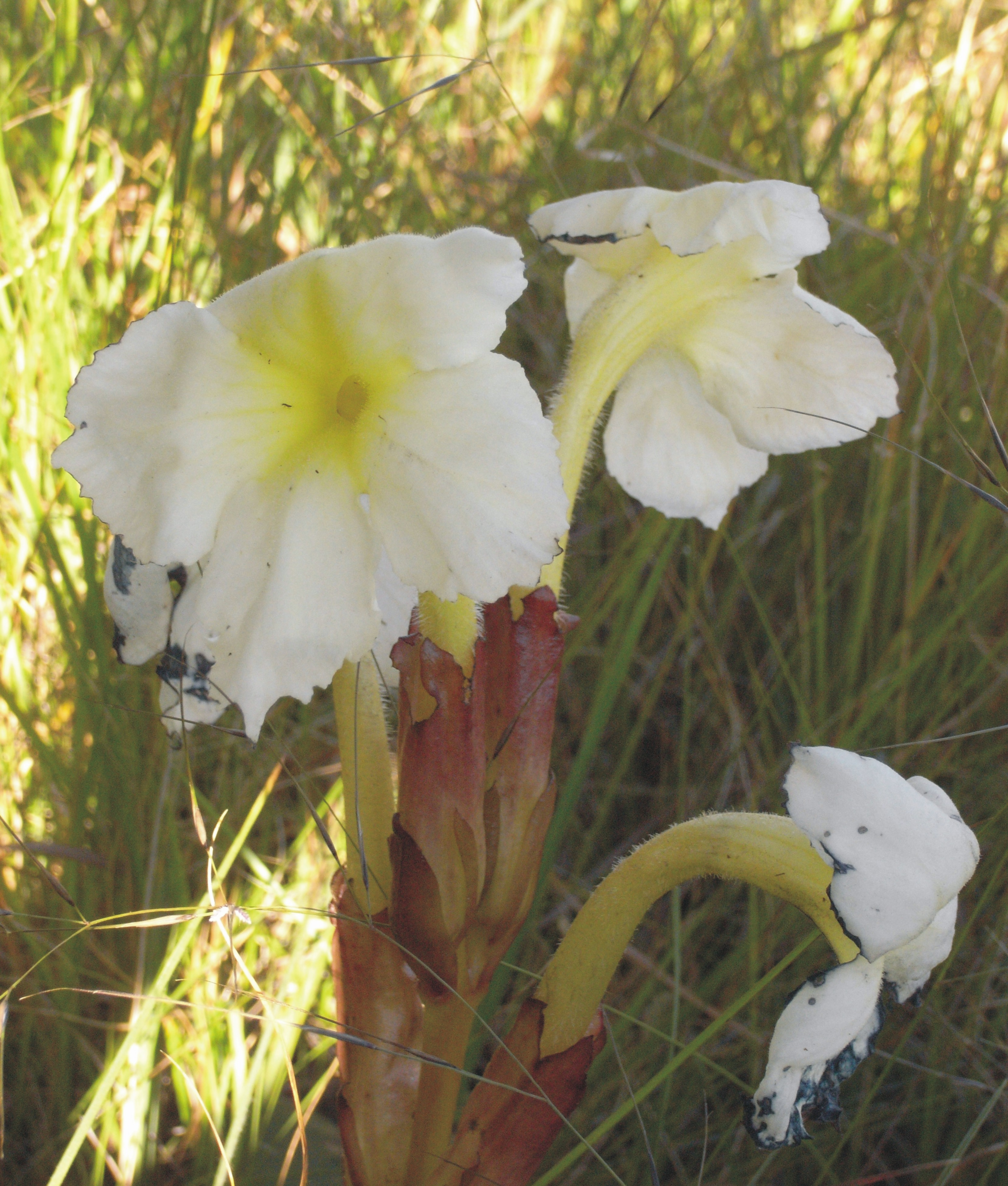 Tall Ink Flower (Harveya speciosa) (South Africa, Eastern Cape, Hogsback region)